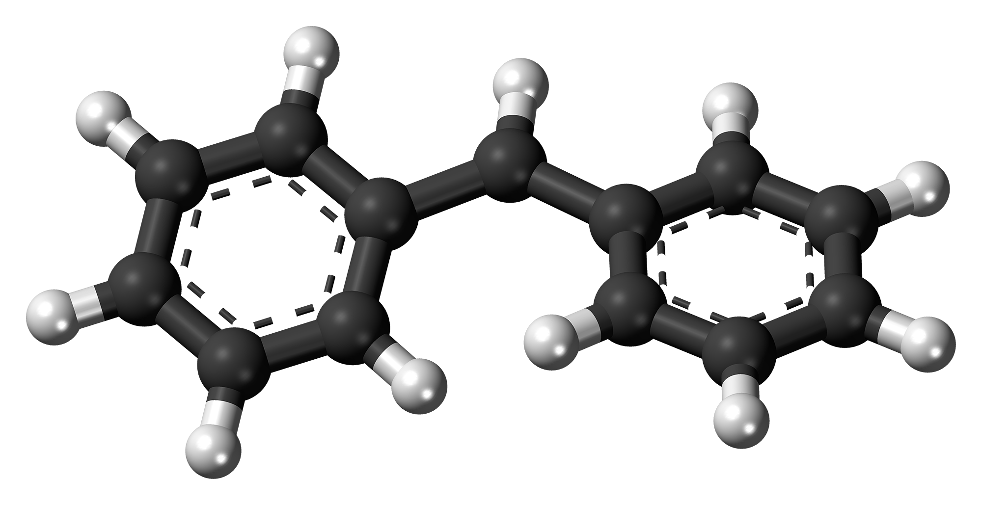 Ball-and-stick model of the benzhydryl radical, the free radical form of a common aryl group. Color code: Carbon, C: black Hydrogen, H: white